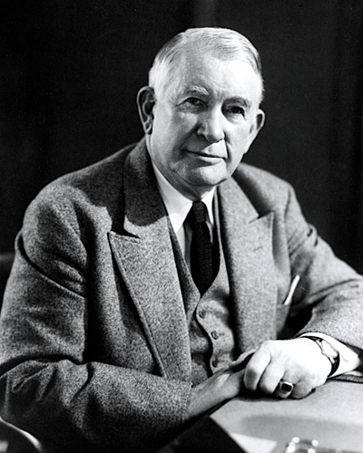 Portrait of Vice-President Alben Barkley